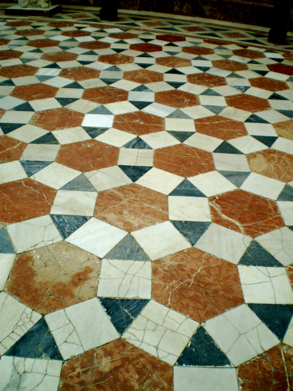 Tile floor from Museo Arqueológico de Sevilla, Spain. Semi-regular Tessellation.